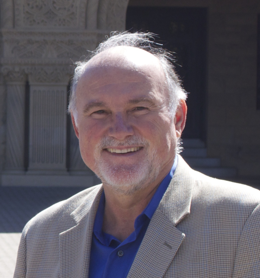 Dr. Branimir I. Sikic in the Main Quad at Stanford University